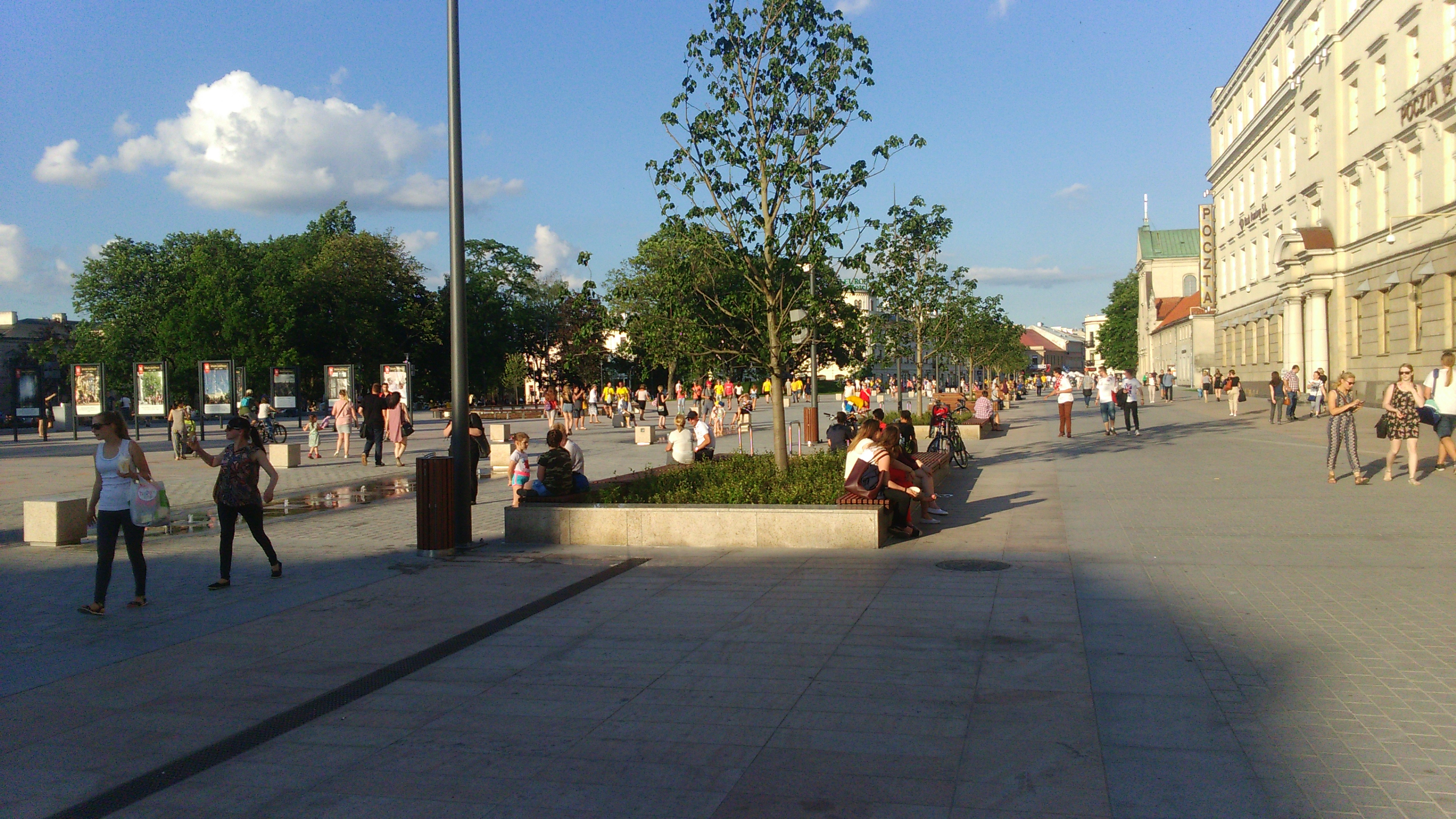 Plac Litewski